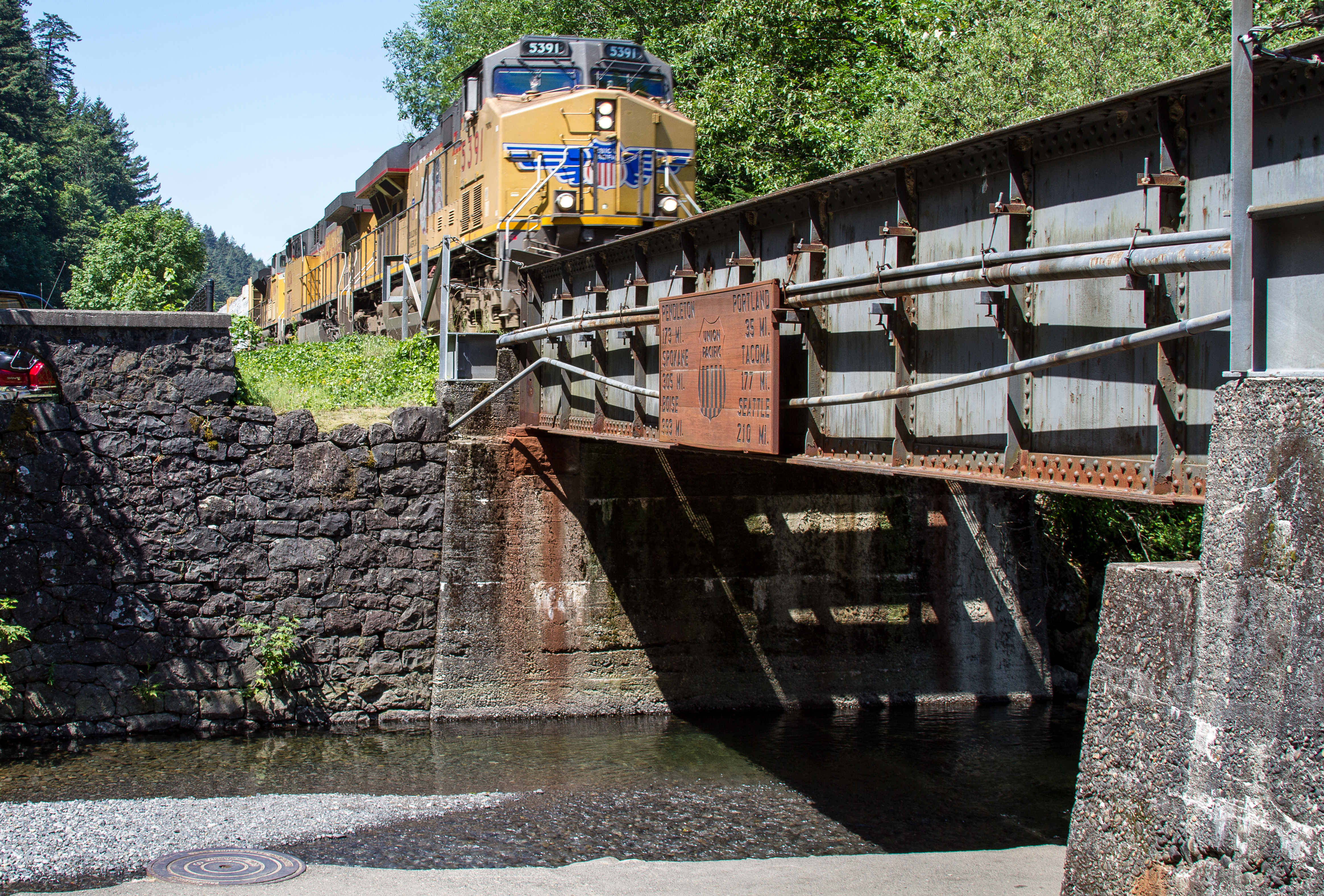 Union Pacific Railroad Bridge at Multnomah Falls with sign stating miles distance to Pendleton, Portland, Spokane, Tacoma, Boise, Seattle. Union Pacific Engine 5391 approaching bridge from the west at high speed in upper left of frame.